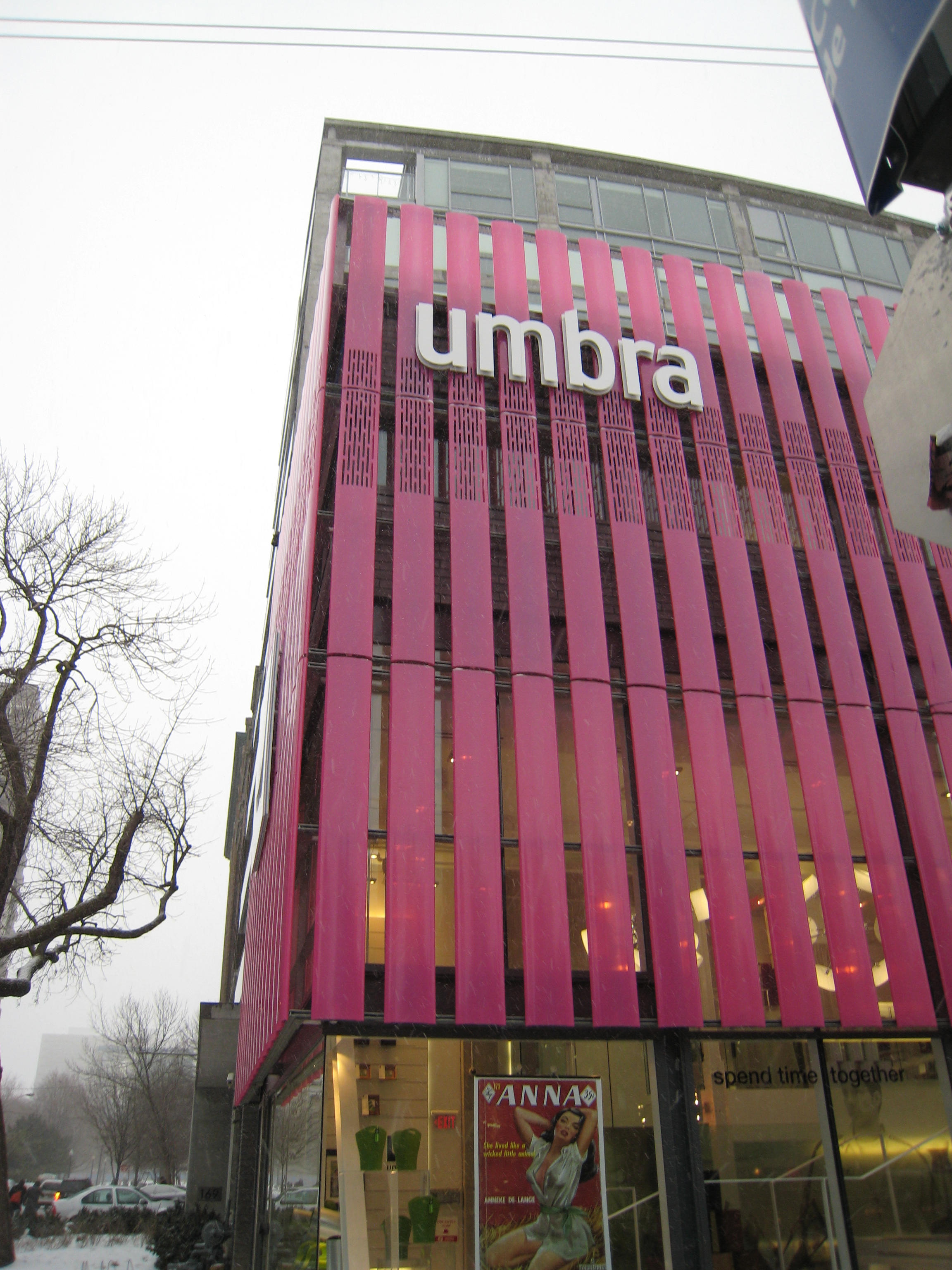 Umbra concept store in Toronto.